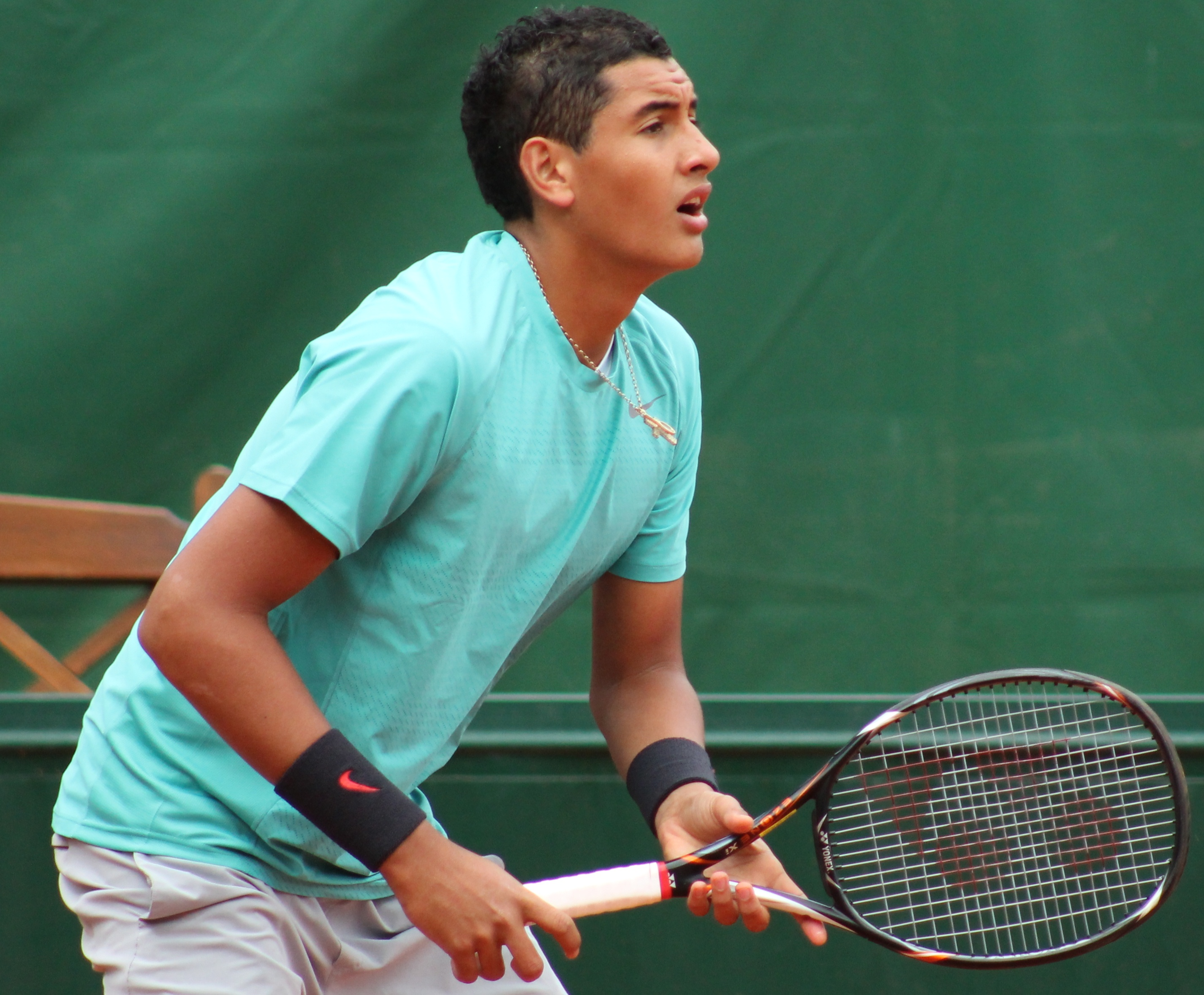 Nick Kyrgios playing at Roland Garros 2013